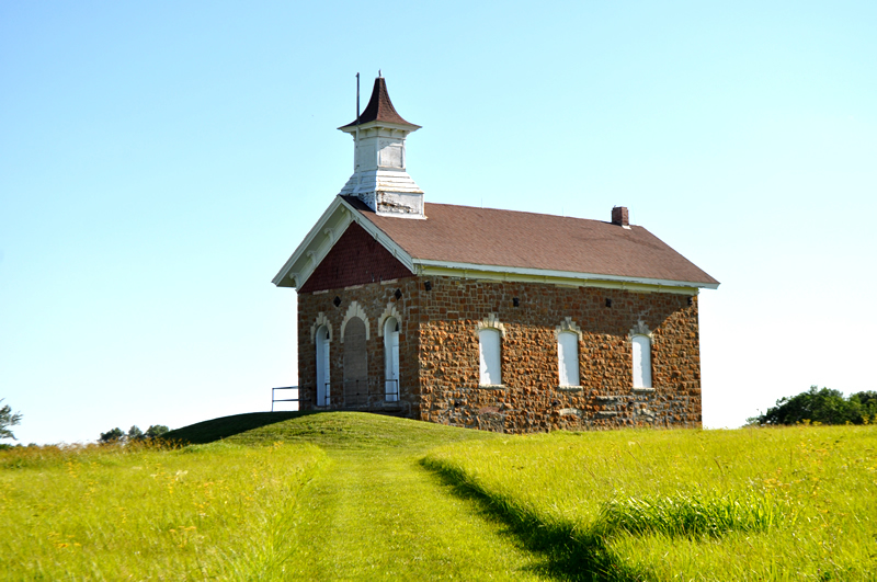 Arvonia Schoolhouse, Arvonia, Kansas